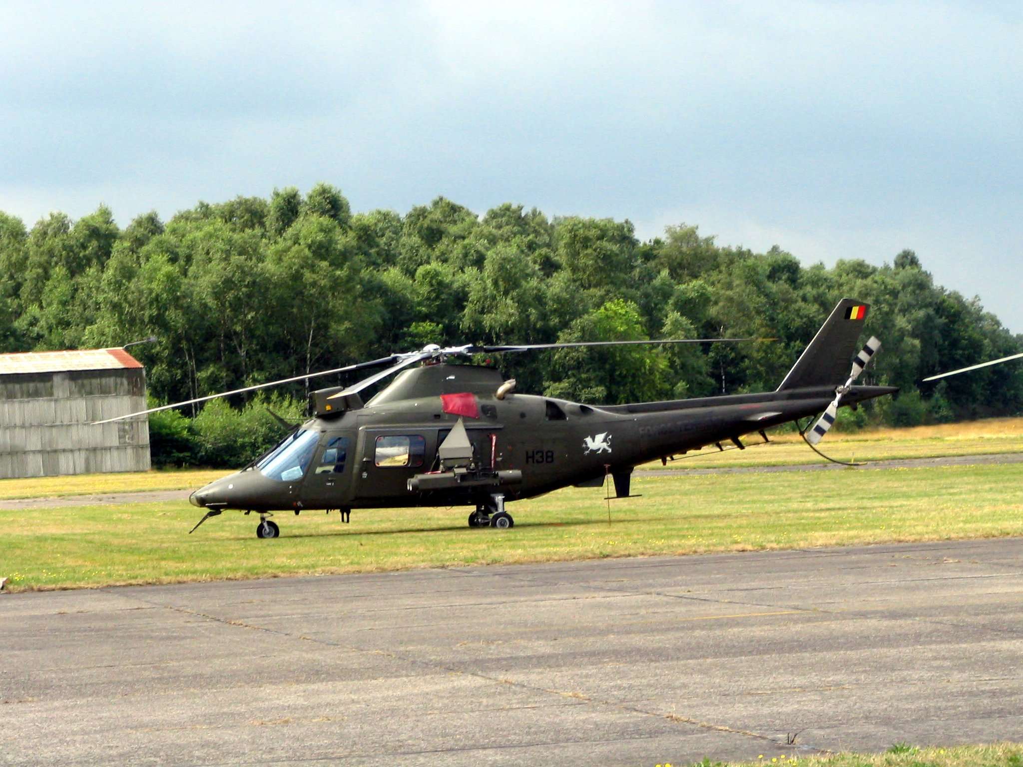 Belgian anti-tank helicopter Augusta A109BA.